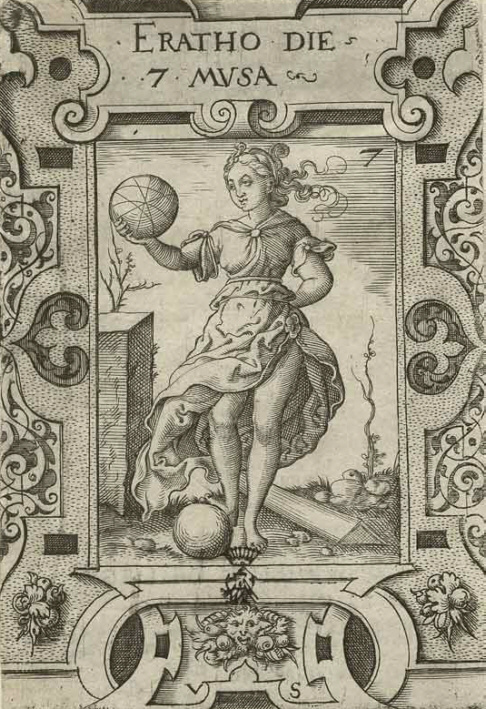 Muse Erato from the illustrations to Ovid by Virgil Solis (1562).